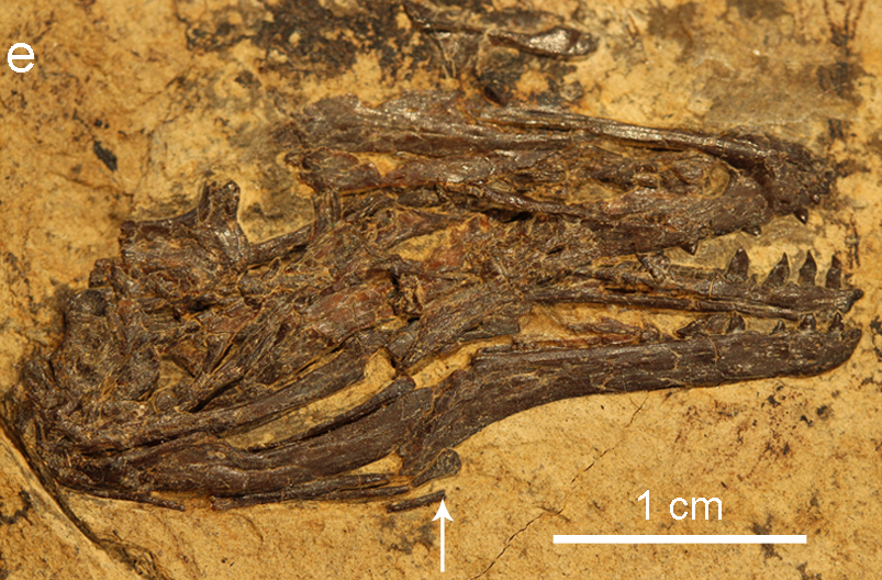 The skull of Longusunguis kurochkini (IVPP V17864). Derived from supplemental Figure 4 in the source. Arrow points to preserved hyoid elements.